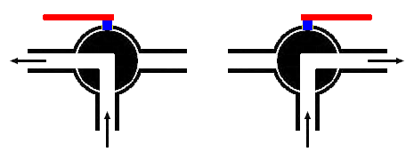 Cross-sectional schematic of a 3-way ball valve in each of two positions. Arrows show flow allowed in each position. Blue color indicates the stem. Red color indicates the handle in each position. H Padleckas created this image file in late August 2006 especially for use in articles on valves in Wikimedia. The schematic style is based on a similar image file, "Wikipedia:Image:Ballvalve.jpg", in Wikipedia, drawn by MH and uploaded by Wikipedia:User:Sonett72 on Nov. 23, 2004, which was released to the public domain. H Padleckas 17:56, 16 September 2006 (UTC)